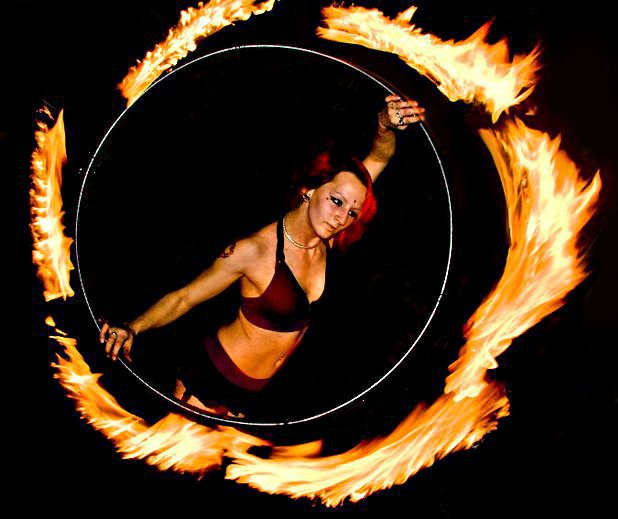 Sasha the Fire Gypsy performing with a Fire Hula Hoop